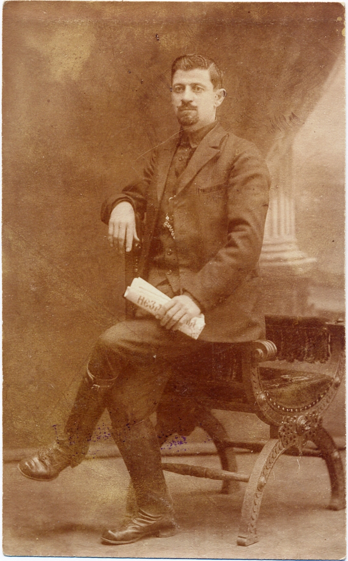 Bulgarian revolutionaire, member of the Internal Macedonian-Adrianopolitan Revolutionary Organization Kostadin Mishev.